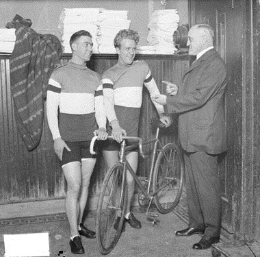 Informal portrait of cyclists F. Spencer and B. Walthour and F. Kramer standing next to a bicycle in a room in Chicago, Illinois. Kramer is wearing street clothes. Folded towels are sitting on a ledge in the background.